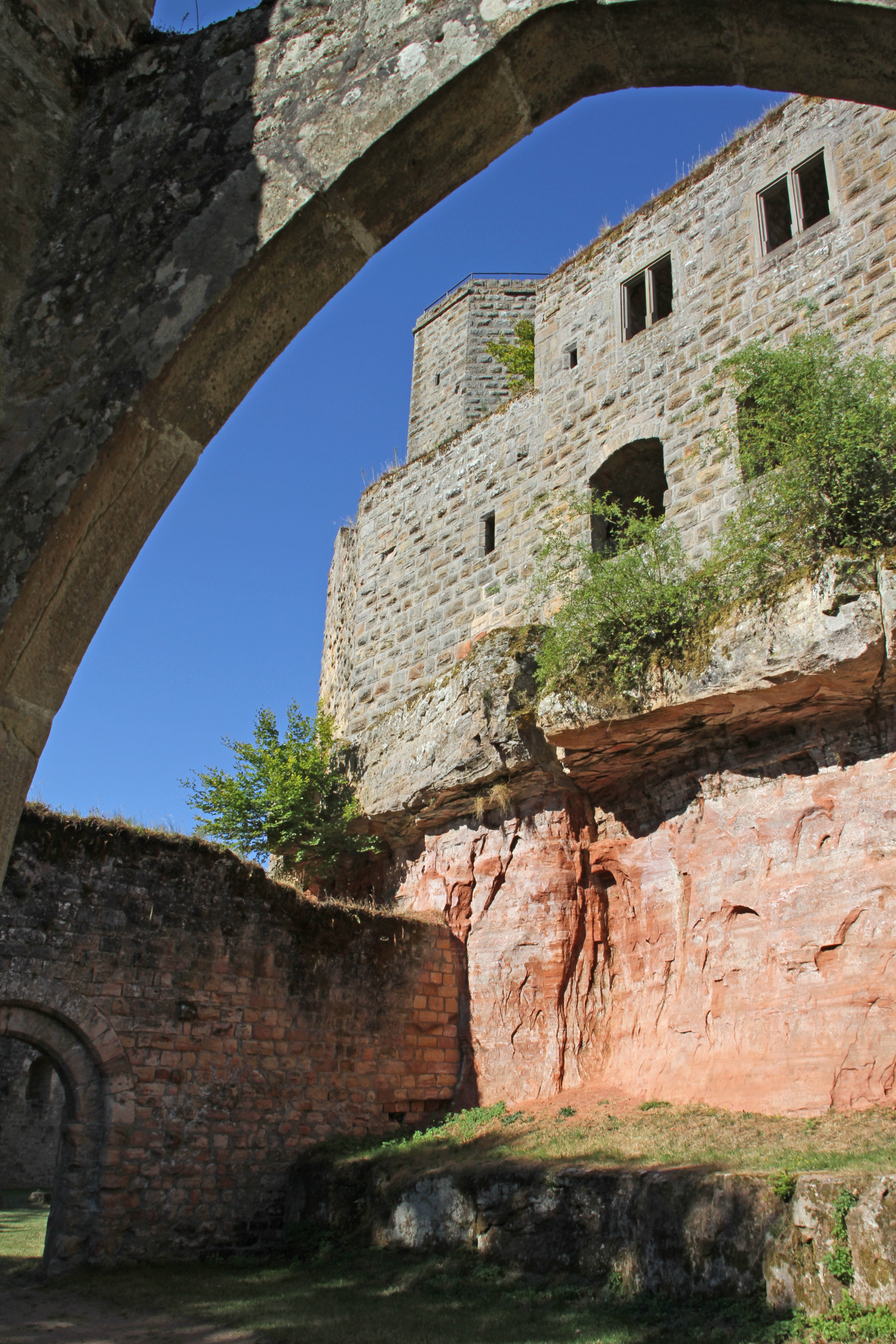 Gräfenstein Castle nearby Merzalben/Germany.